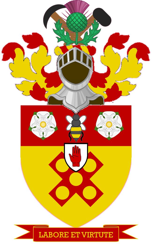 The armorial achievement of the Bruce-Gardner baronets of Frilford